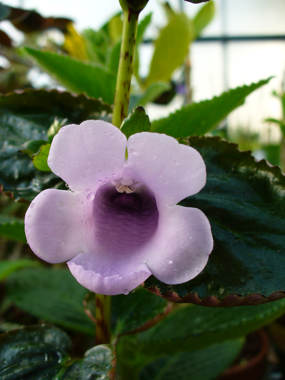 Gloxinia perennis Biological Sciences Dept. greenhouse, Florida International University, Miami, USA